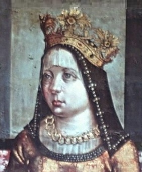 Queen Anne de Foix-Candale of Bohemia and Hungary.